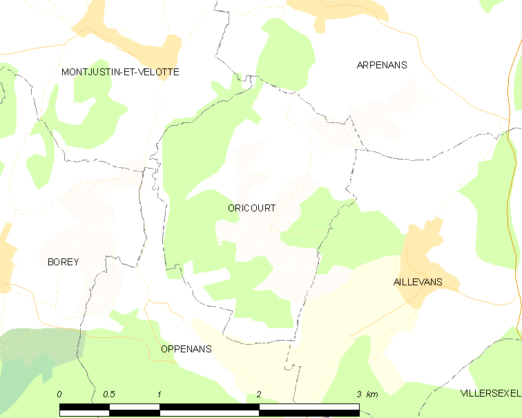 Map of French municipality